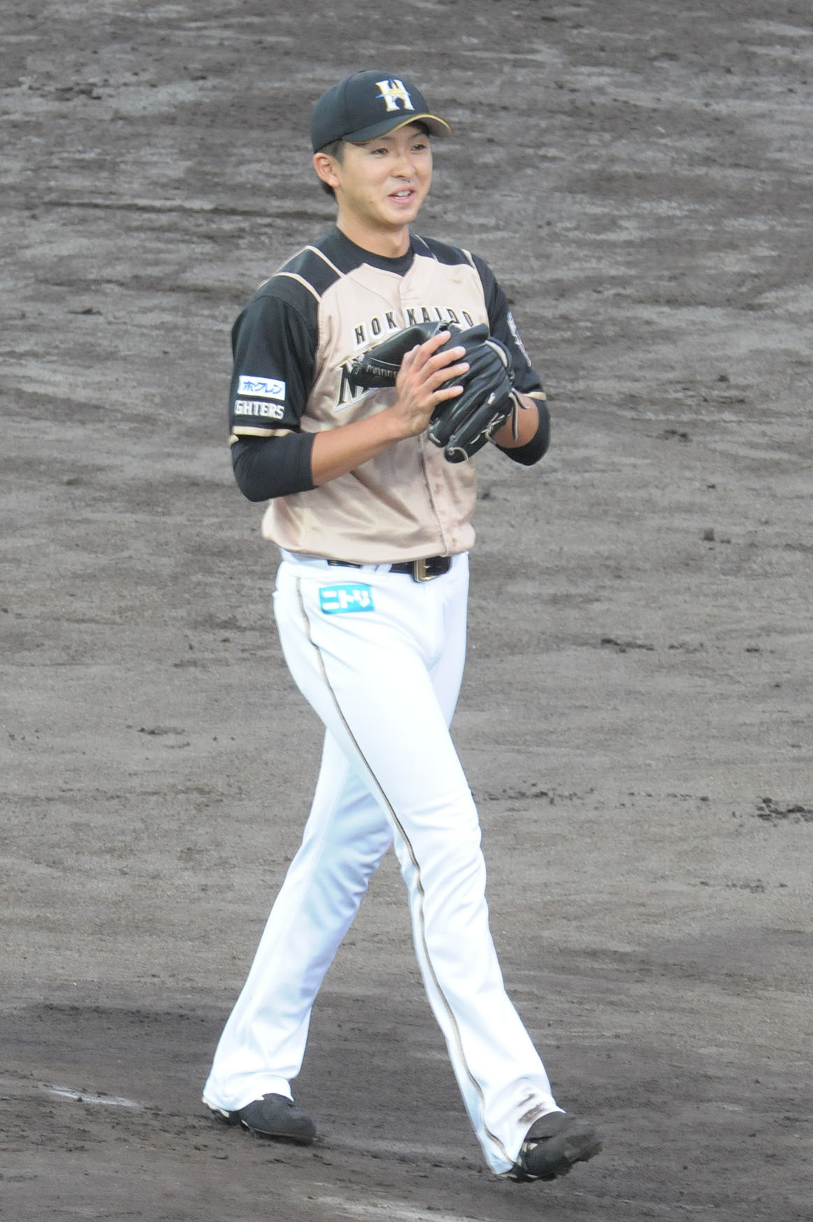 Naoyuki Uwasawa, pitcher of the Hokkaido Nippon-Ham Fighters, at Akita Prefectural Baseball Stadium.